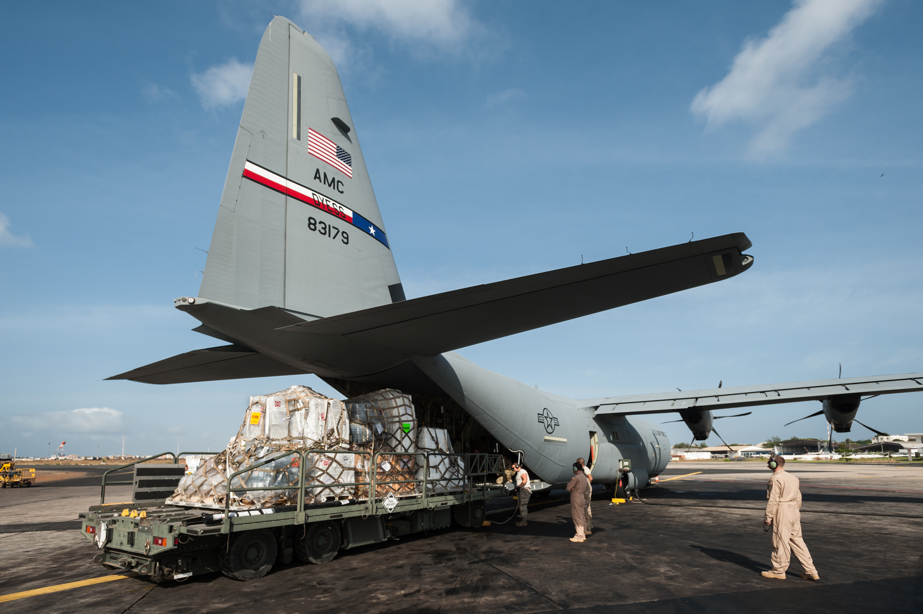 Aerial porters from the Kentucky Air National Guard’s 123rd Contingency Response Group load 8 tons of humanitarian aid and military supplies onto a U.S. Air Force C-130 aircraft at Léopold Sédar Senghor International Airport in Dakar, Senegal, Nov. 4, 2014. The aircraft and crew, from Dyess Air Force Base Texas, are deployed to Senegal as part of the 787th Air Expeditionary Squadron and will fly the cargo into Monrovia, Liberia, in support of Operation United Assistance, the U.S. Agency for International Development-led, whole-of-government effort to contain the Ebola virus outbreak in West Africa. (U.S. Air National Guard photo by Maj. Dale Greer)